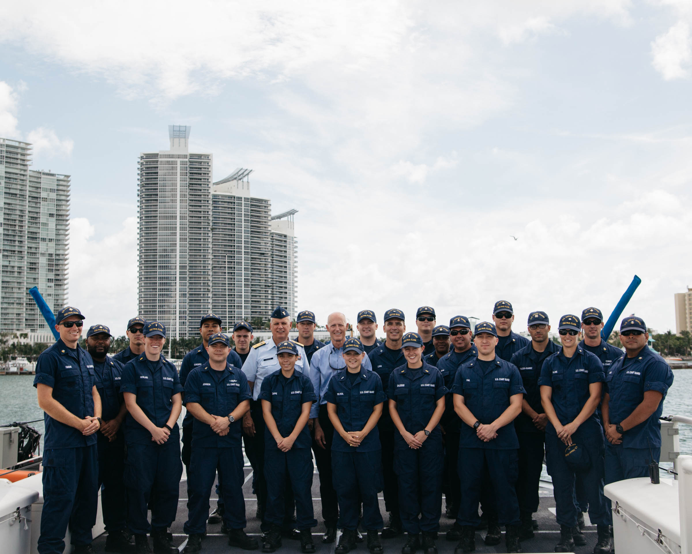 Florida Governor Rick Scott poses with the Coast Guard at a photo-op in Miami, Florida.